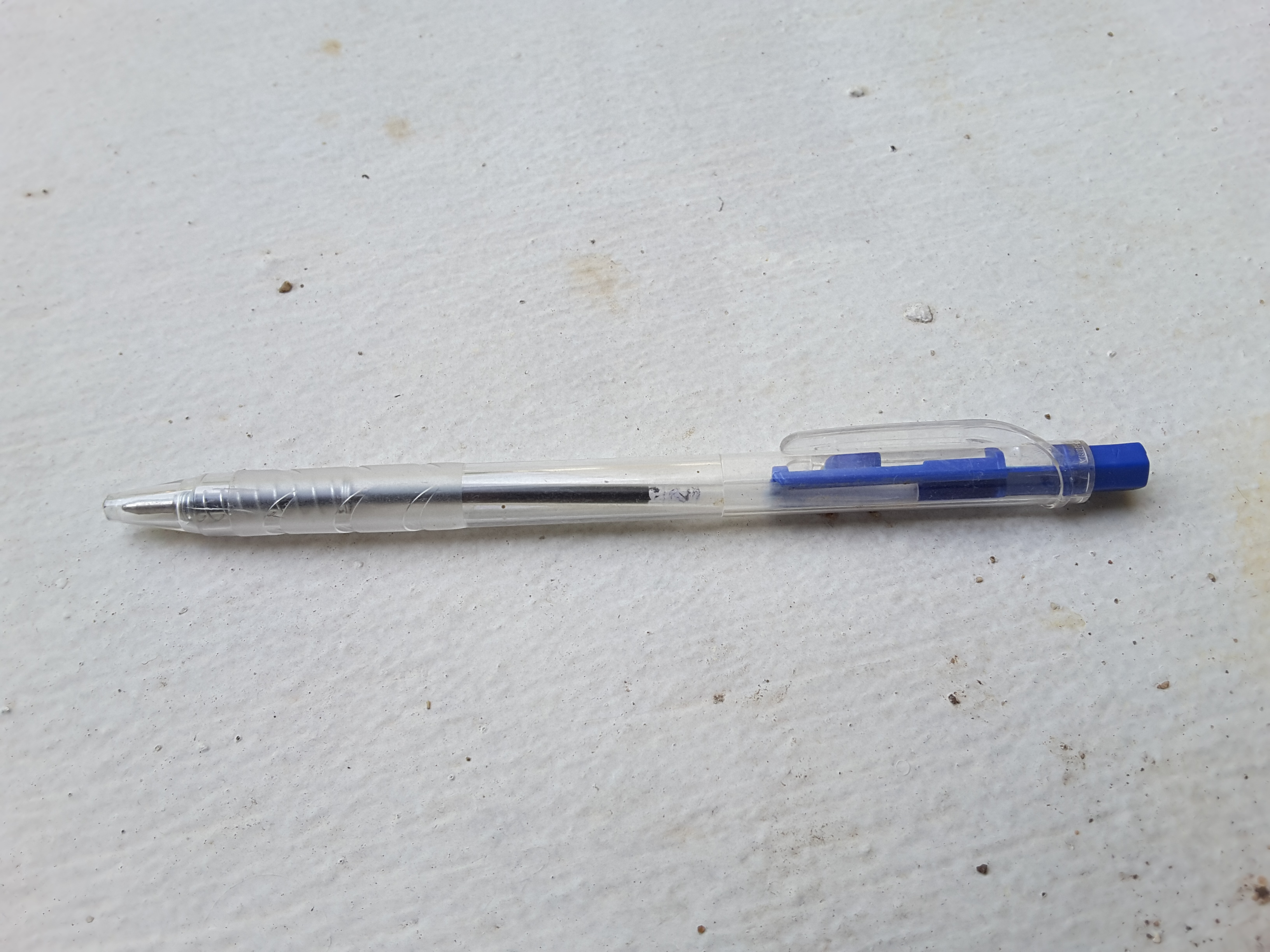 A typical ball point pen